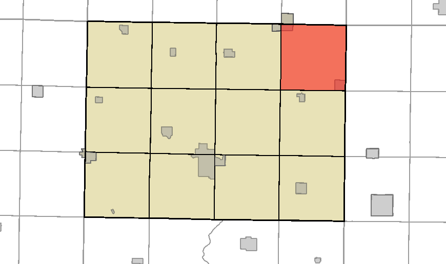 This is a map of Humboldt County, Iowa, USA which highlights the location of Vernon Township.